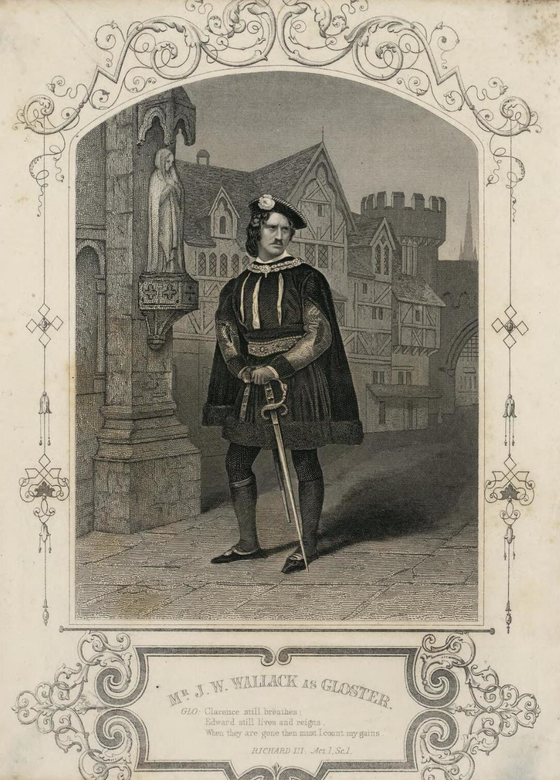 A portrait from the Welsh Portrait Collection at the National Library of Wales. Depicted person: James William Wallack – Anglo-American actor and manager